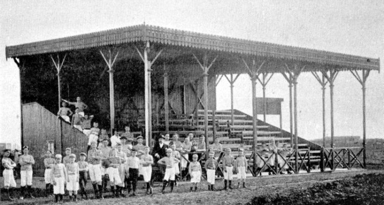 Grandstand of Alumni A.C.'s field in Coghlan, Buenos Aires.